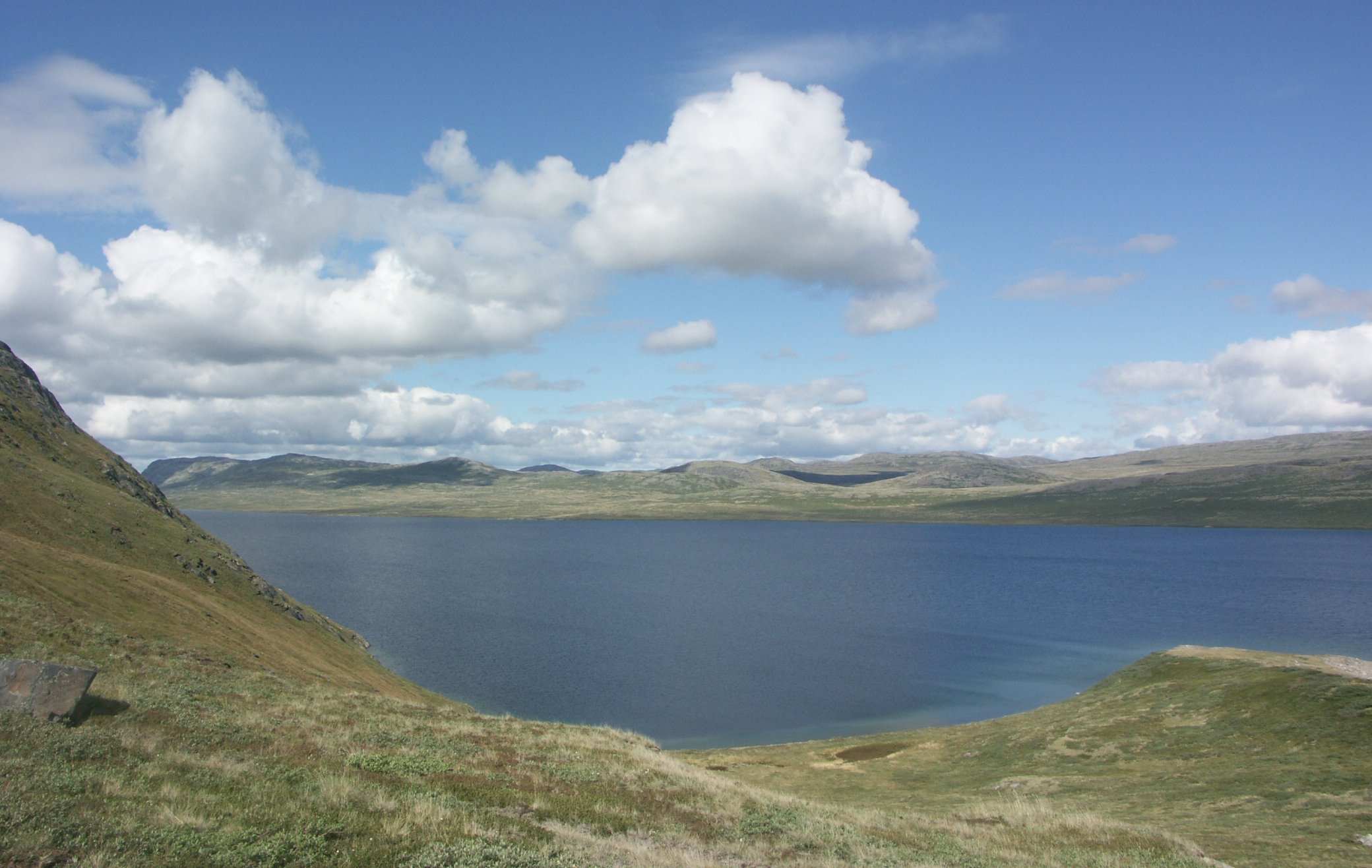 Aajuitsup Tasia lake, seen from southeast, from the boundary ridge of Akuliarusiarsuup Kuua. Qeqqata, Greenland